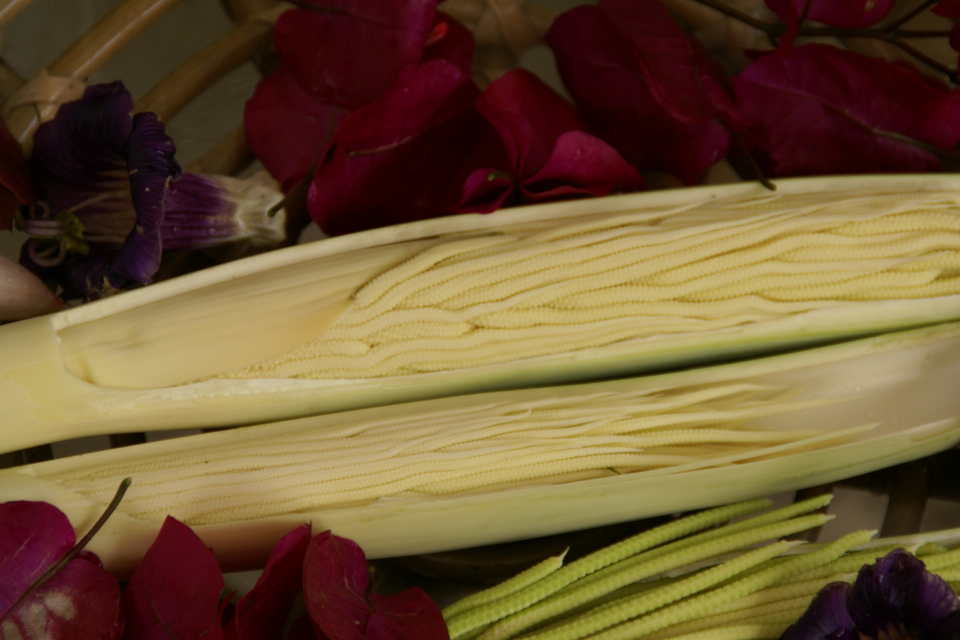 Edible flower of the pacaya palm (Chamaedorea tepejilote) with other flowers